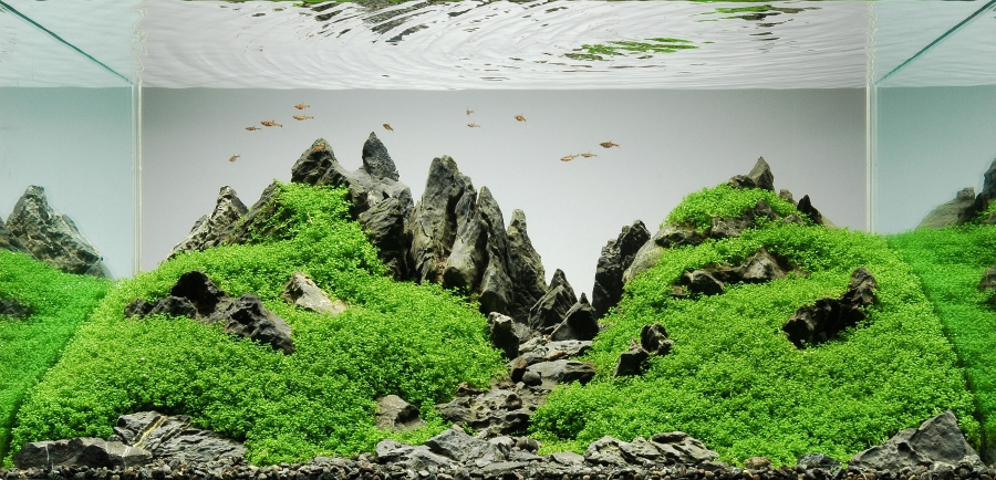 Photograph by Peter Kirwan, Dublin, Ireland, of an aquascape that he created. Image illustrates an excellent example of an Iwagumi nature-style aquascape design.